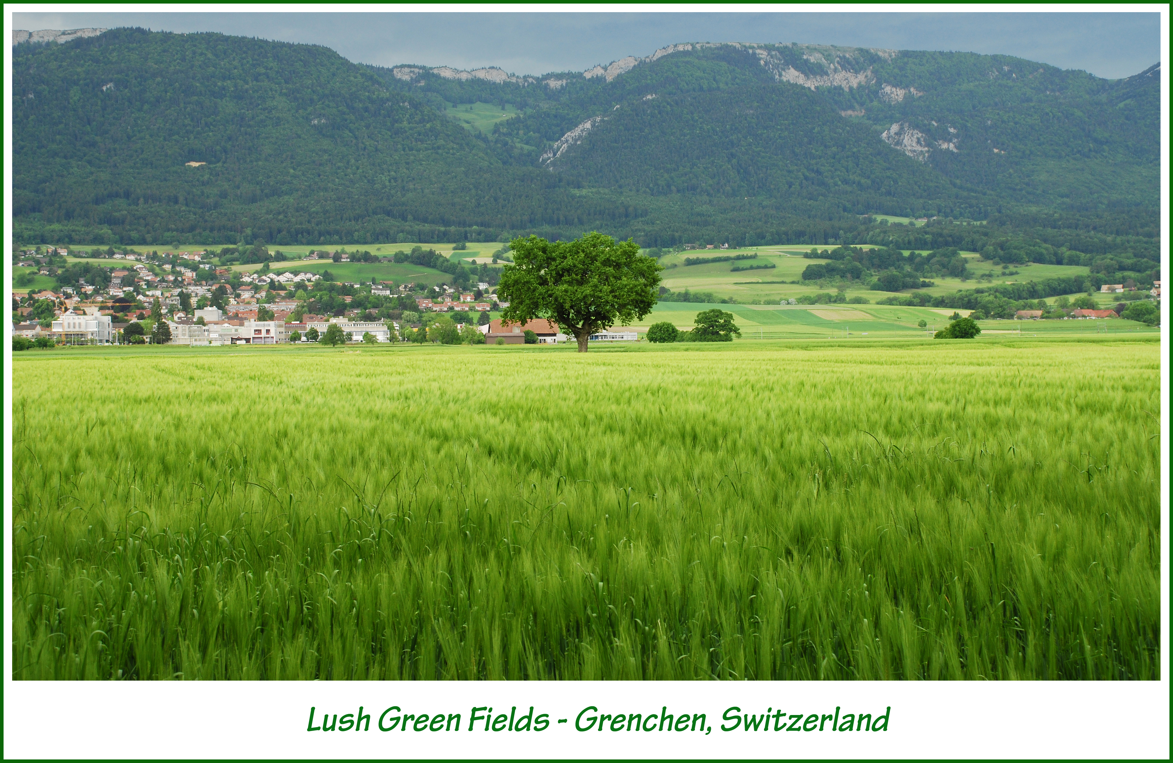 Wheat fields near Grenchen, on the way to Solothurn.